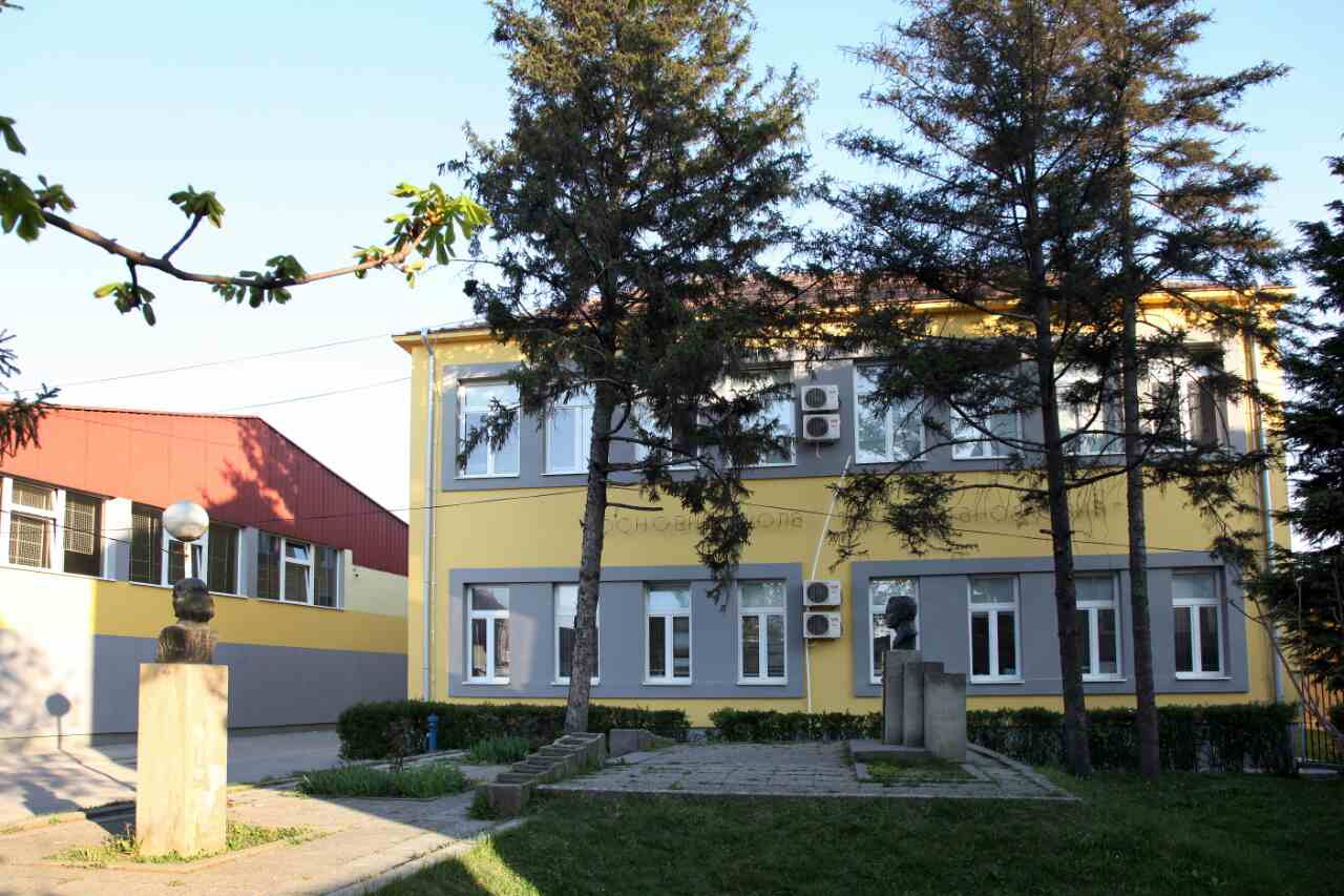 Elementary school "Moma Stanojlović" in Kragujevac